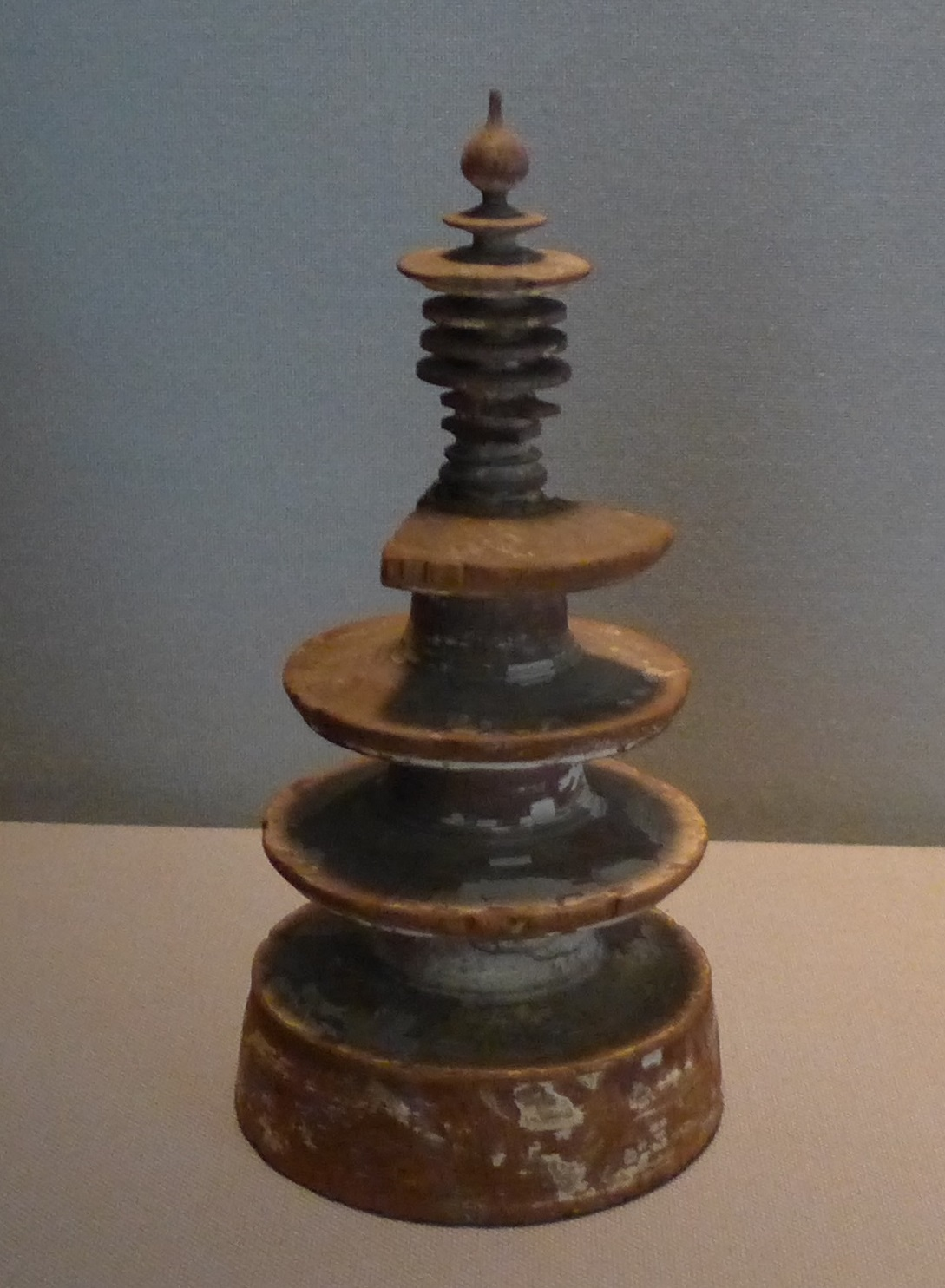 One of ONE MILLION PAKODAs, Wood coloured(almost worn), ACE756, 20cm height, Tokyo National Museum, Tokyo, Japan